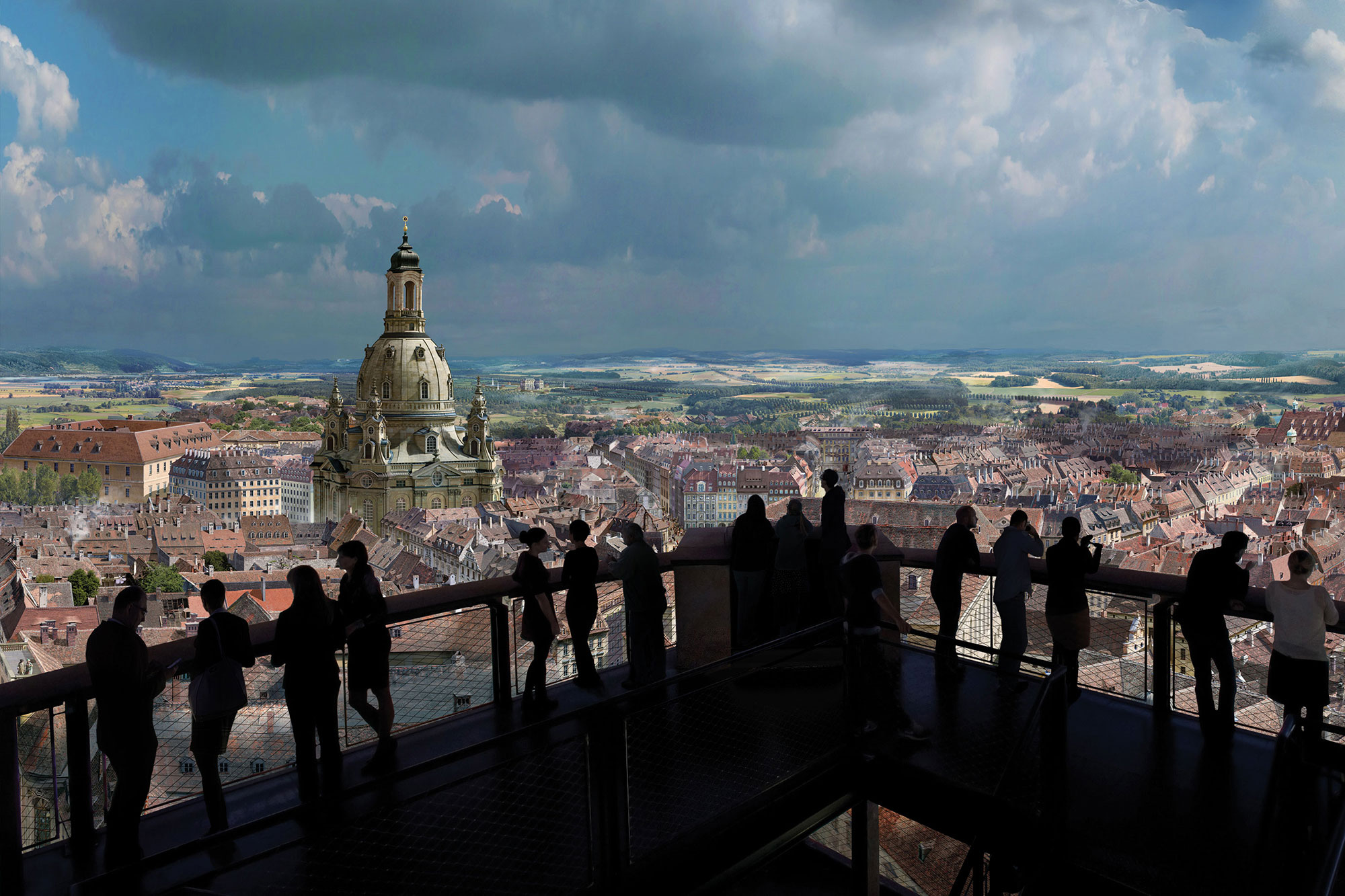 Visitors are exploring the Panorama BAROQUE DRESDEN from the platform (c) asisi